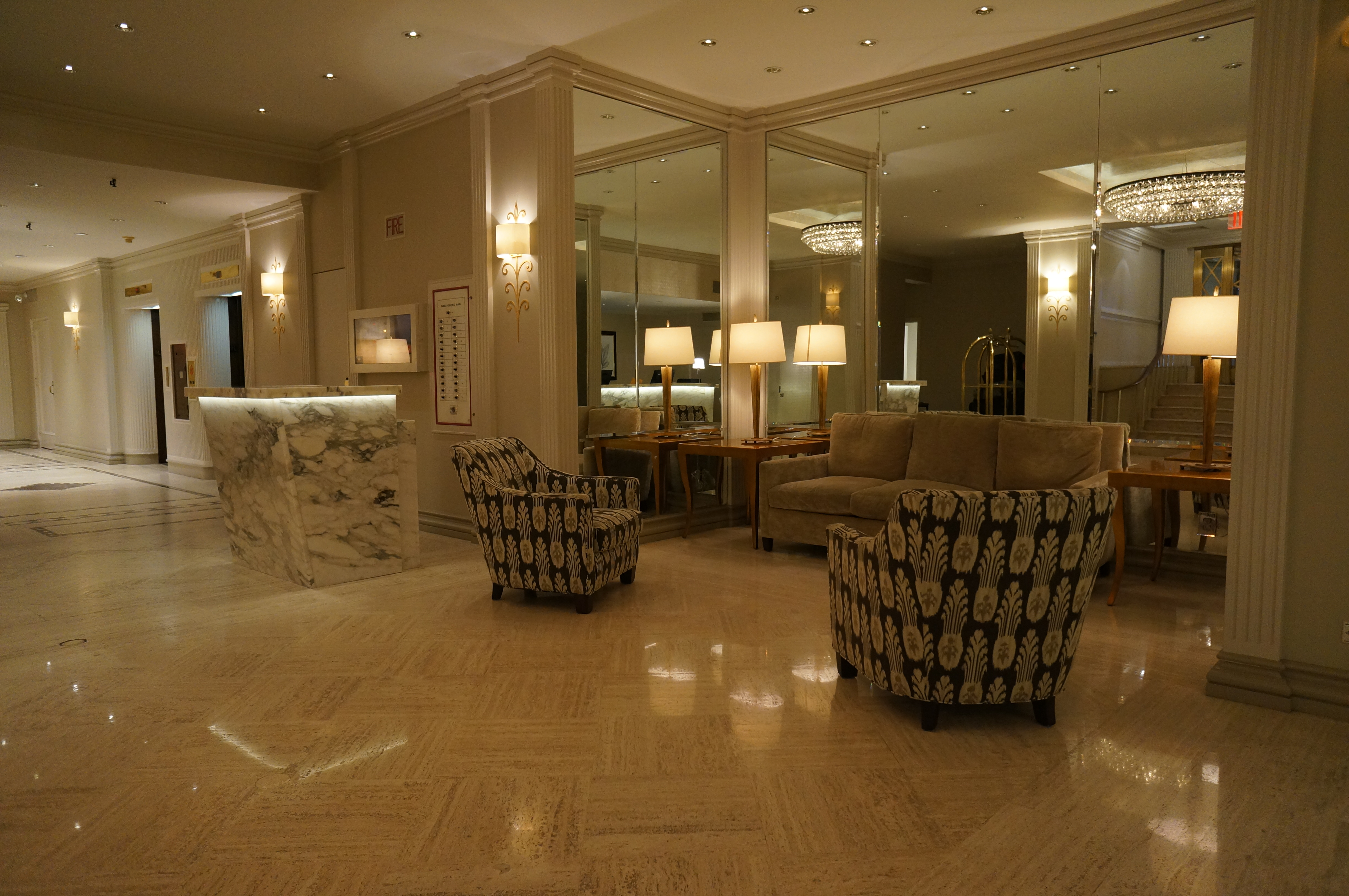 Lobby of New York's Lombardy Hotel taken by Stephen Wald Real Estate, October 2012